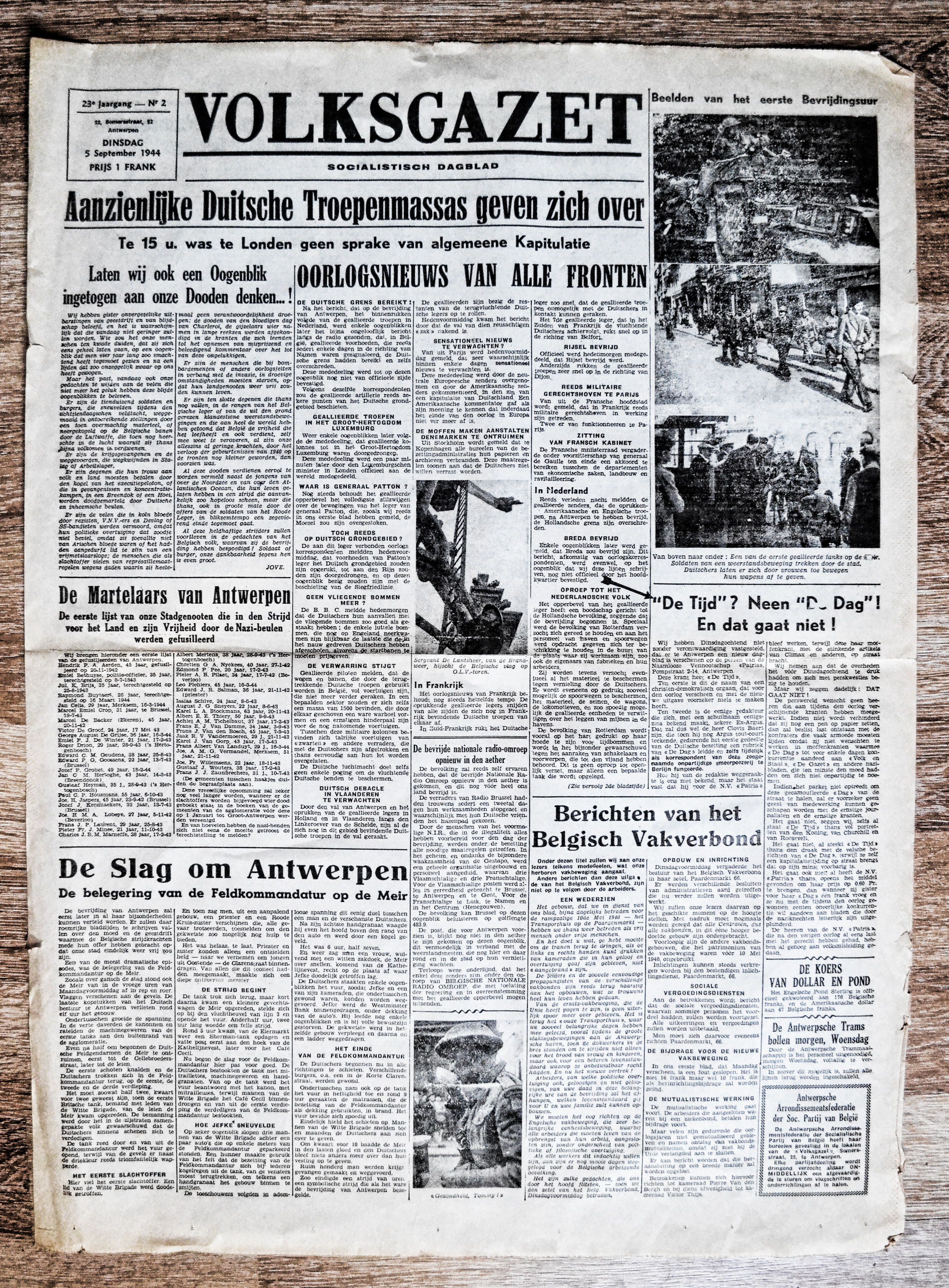 Frontpage Flemish Socialist newspaper "De Volksgazet" 5 September 1944.